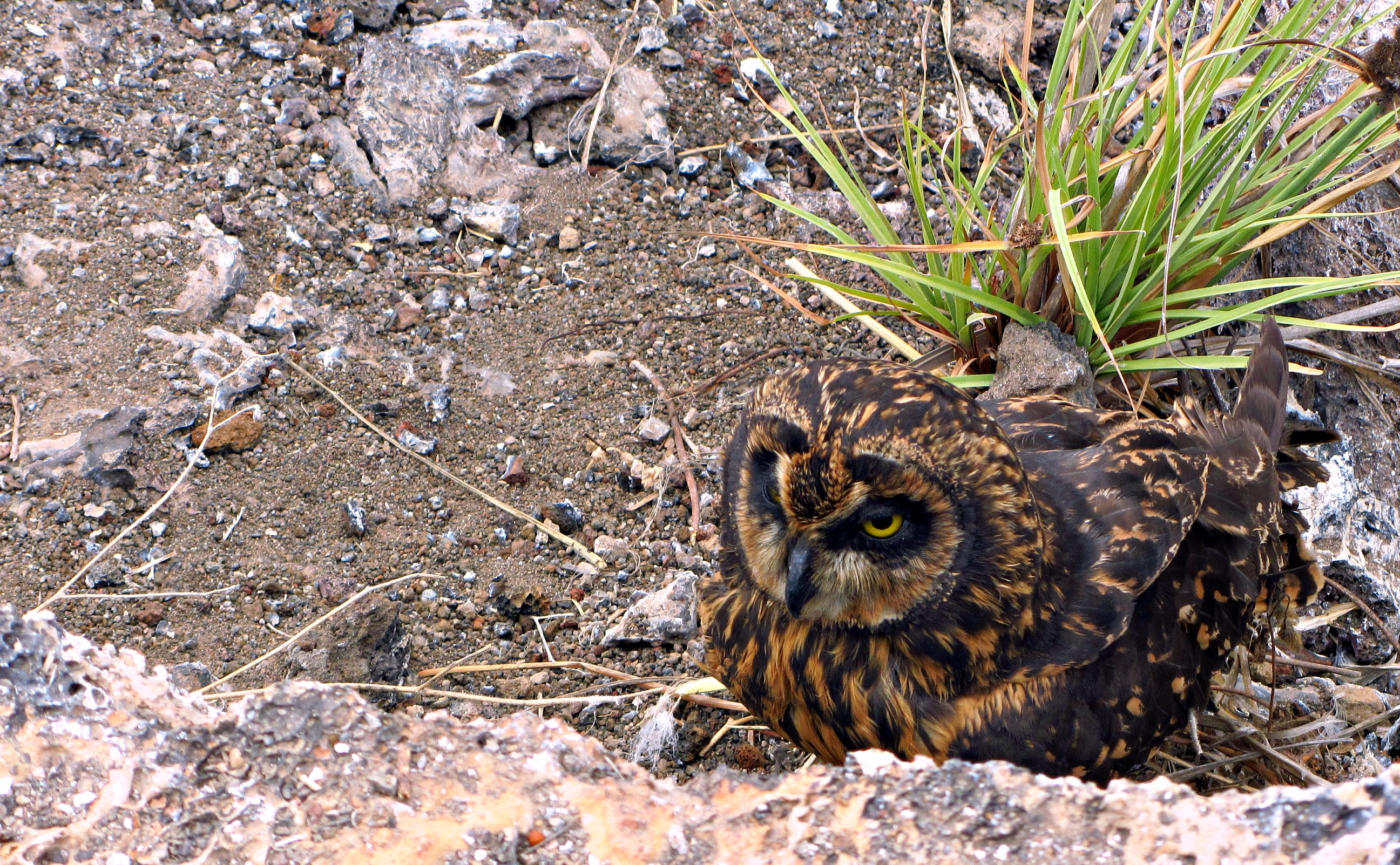 A Short-eared Owl on Genovesa Island, Galapagos Islands, Ecuador.